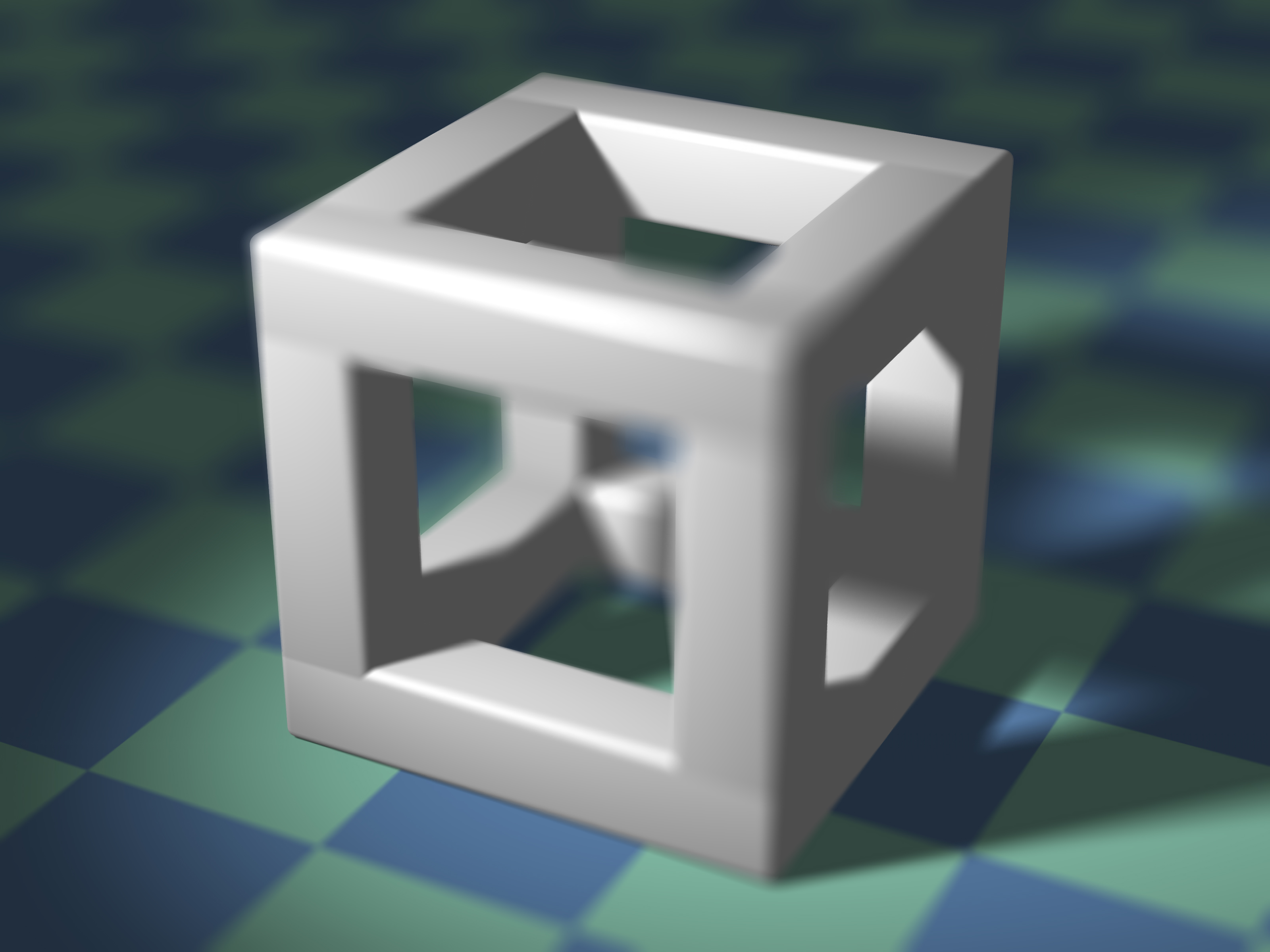 An open cubic frame structure made in the proportions of a cube, with the vertices connected by sold bars each with a square cross section. The edges have been slightly rounded or radiused. The structure is placed on a green and blue tiled floor. A very shallow depth of field effect has been applied using a depth map.